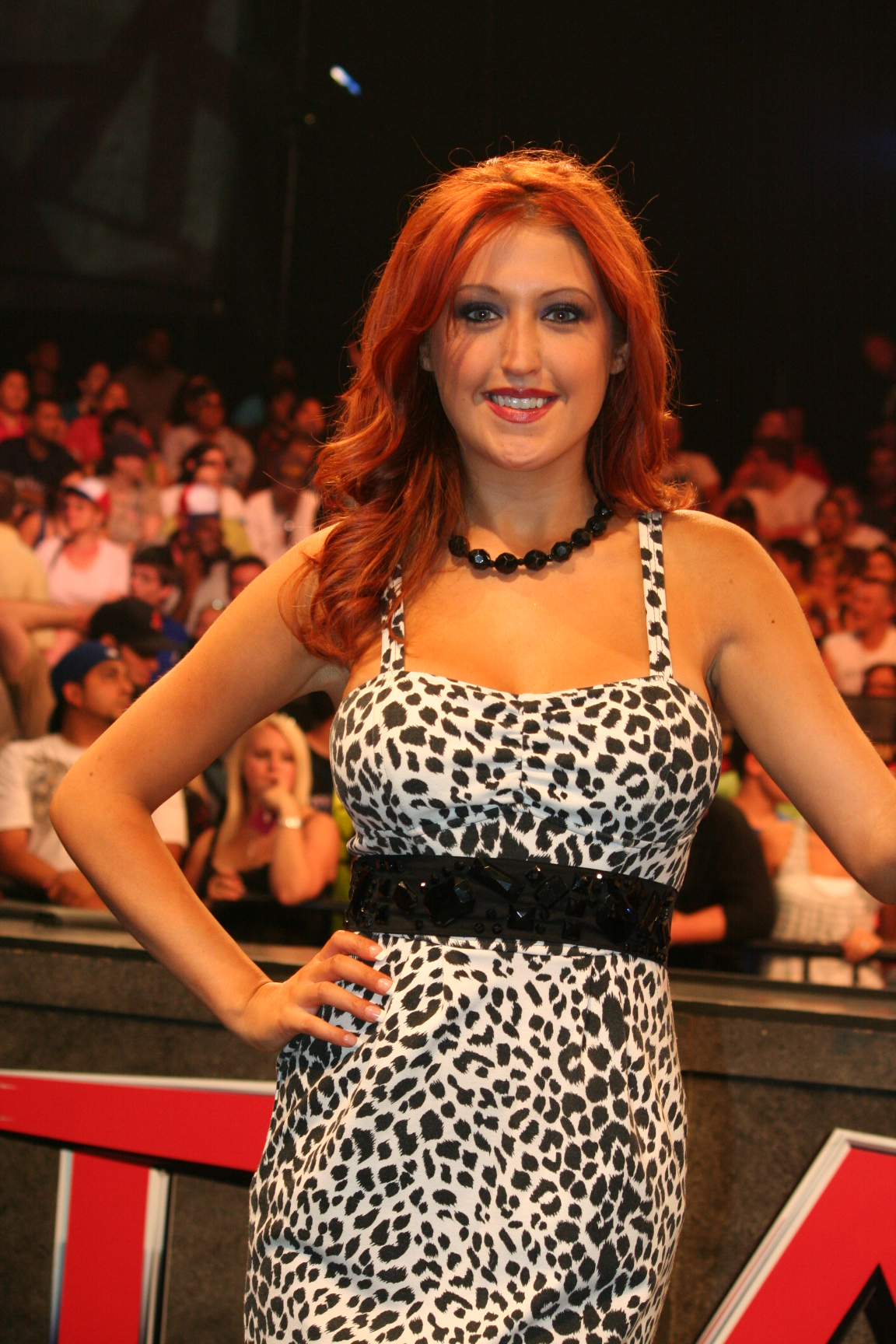 Professional wrestler and valet SoCal Val at a TNA Impact! taping.